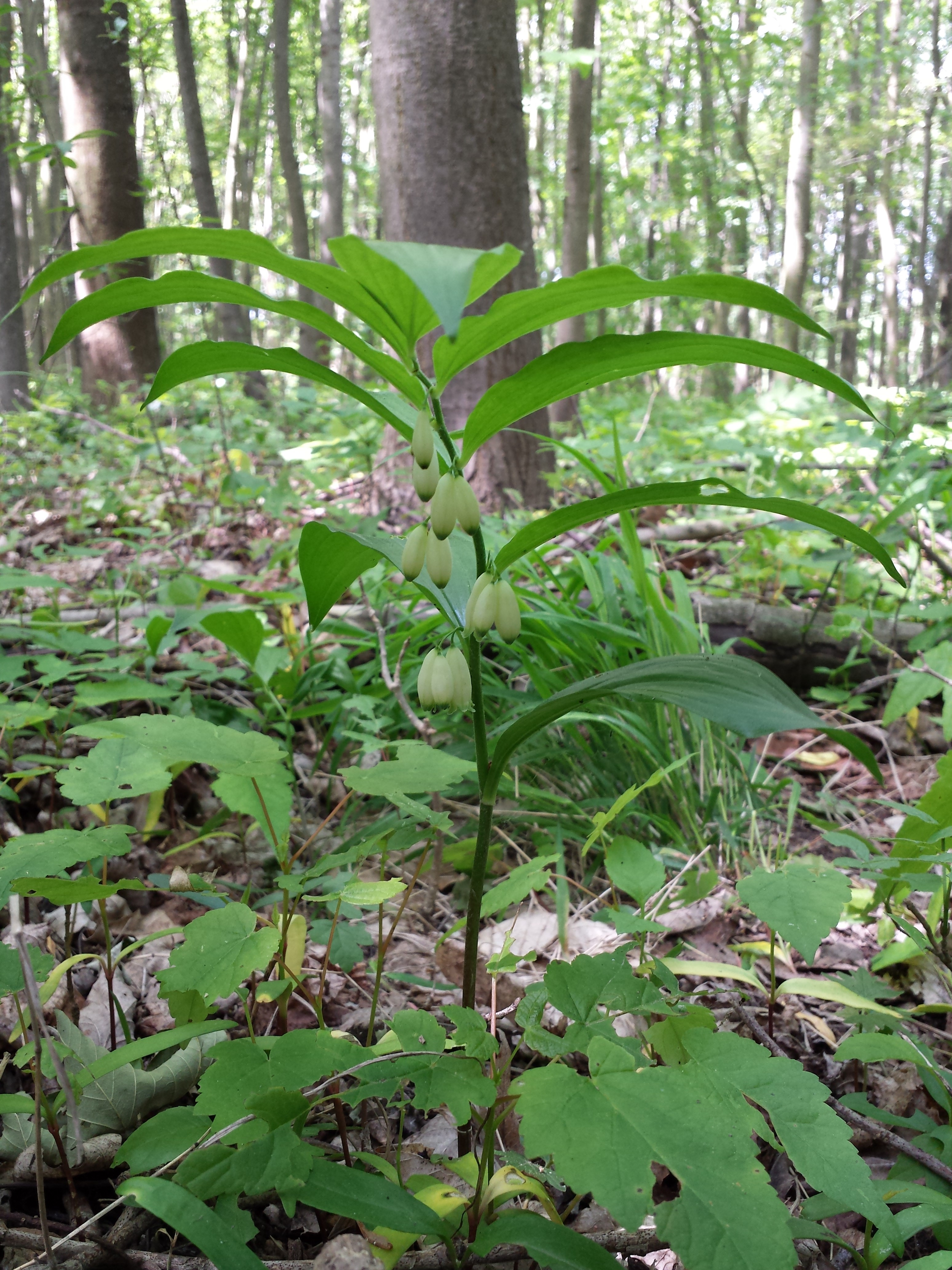 Habitus Taxon: Polygonatum latifolium (sensu Fischer et al. EfÖLS 2008 ISBN 978-3-85474-187-9; det. M. A. Fischer 2014-05-10) Location: Lobau, national park Donauauen, Vienna-Donaustadt - ca. 150 m a.s.l. Habitat: floodplain wood This file shows the National Park Donau-Auen in Austria. This media shows the nature reserve in Vienna with the ID 2.